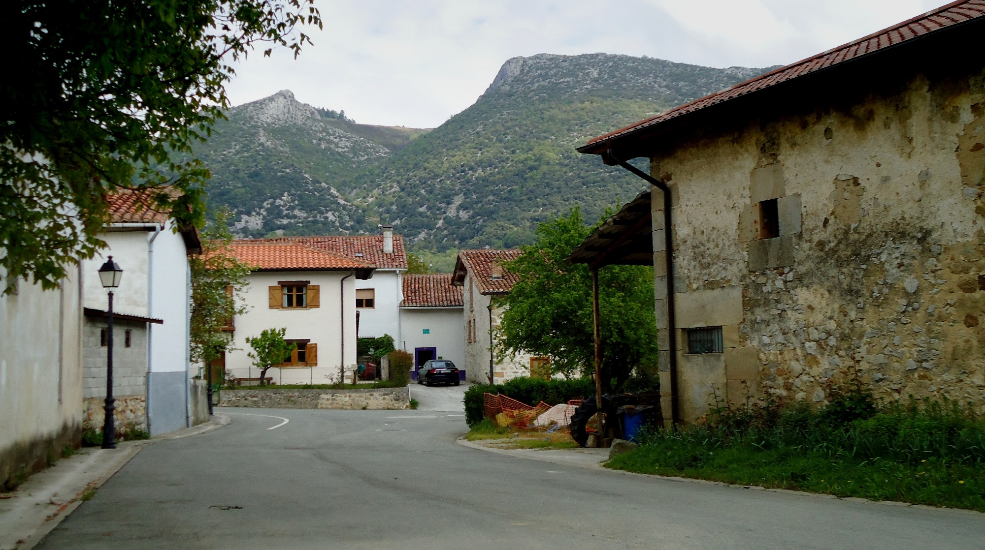 Ilarduia village (Araba, Basque Country)